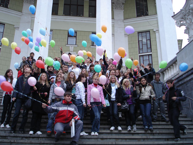 Жизнь КГФЭИ